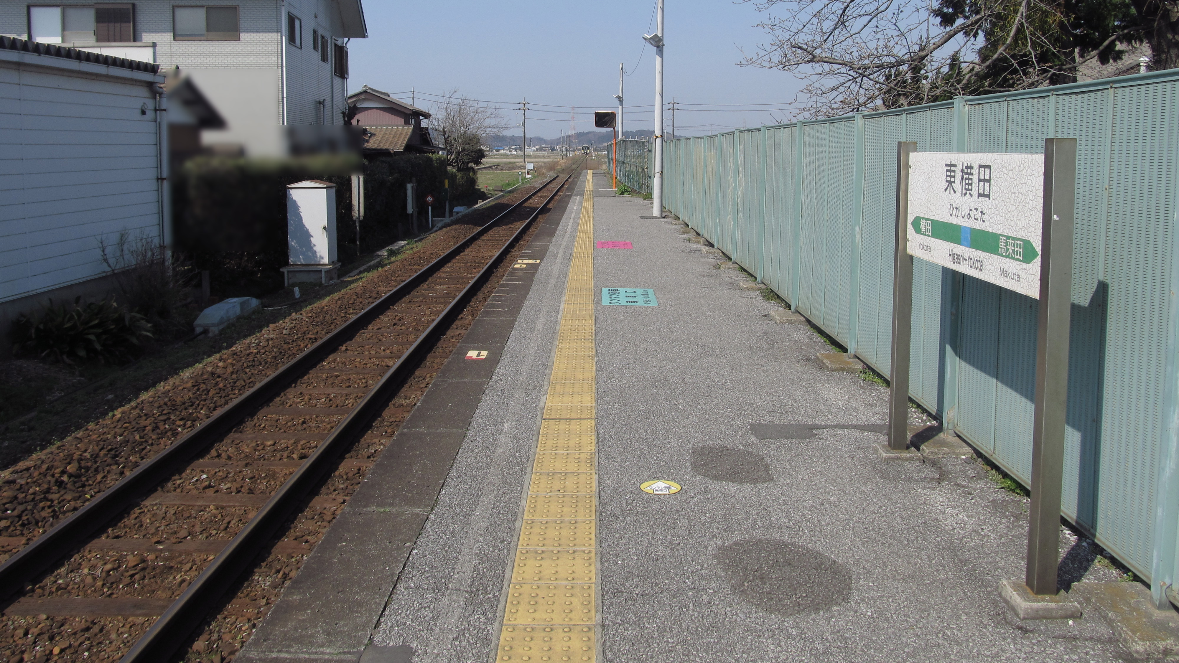 The platform at Higashi-Yokota Station on the Kururi Line in Sodegaura city, Chiba prefecture, Japan